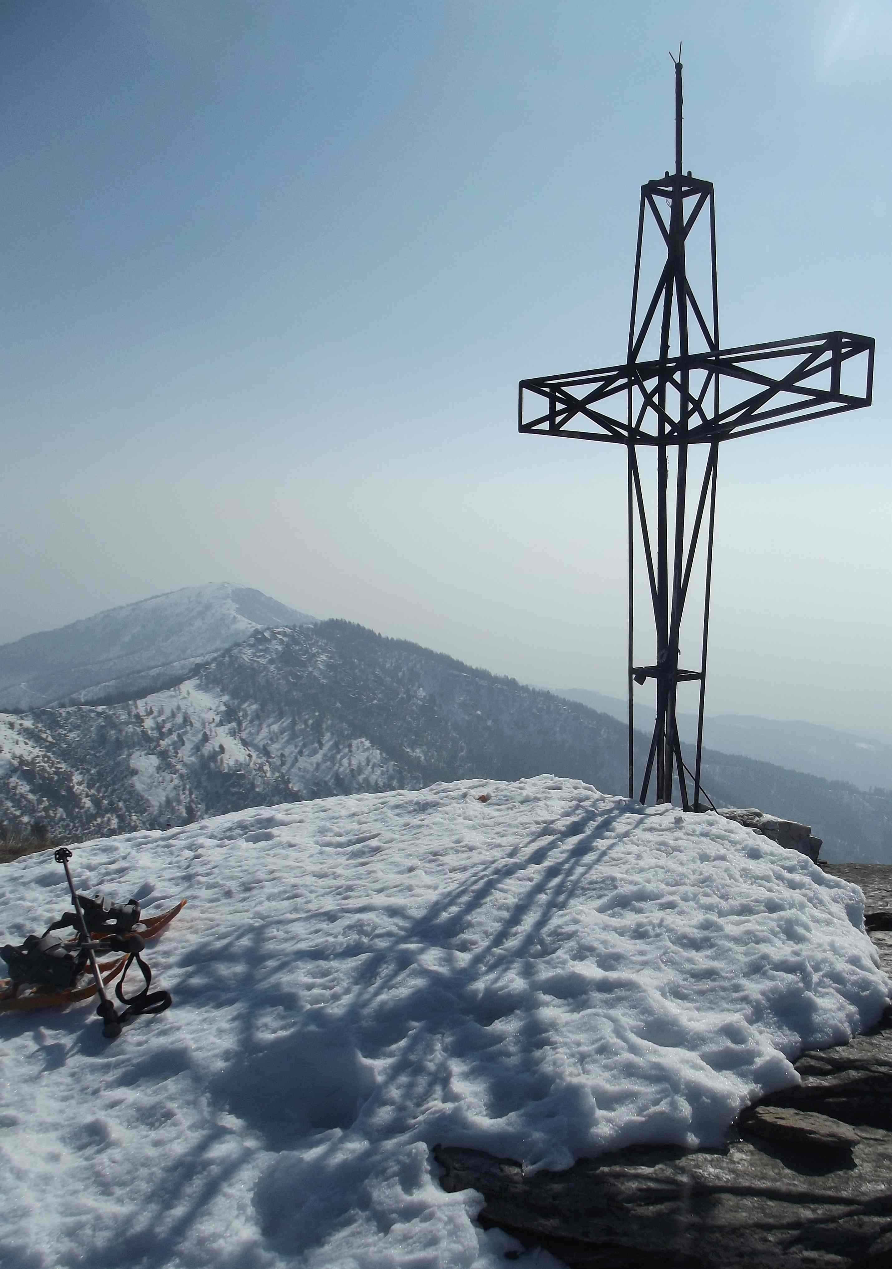 Monte Roccerè (Cottian Alps): summit cross